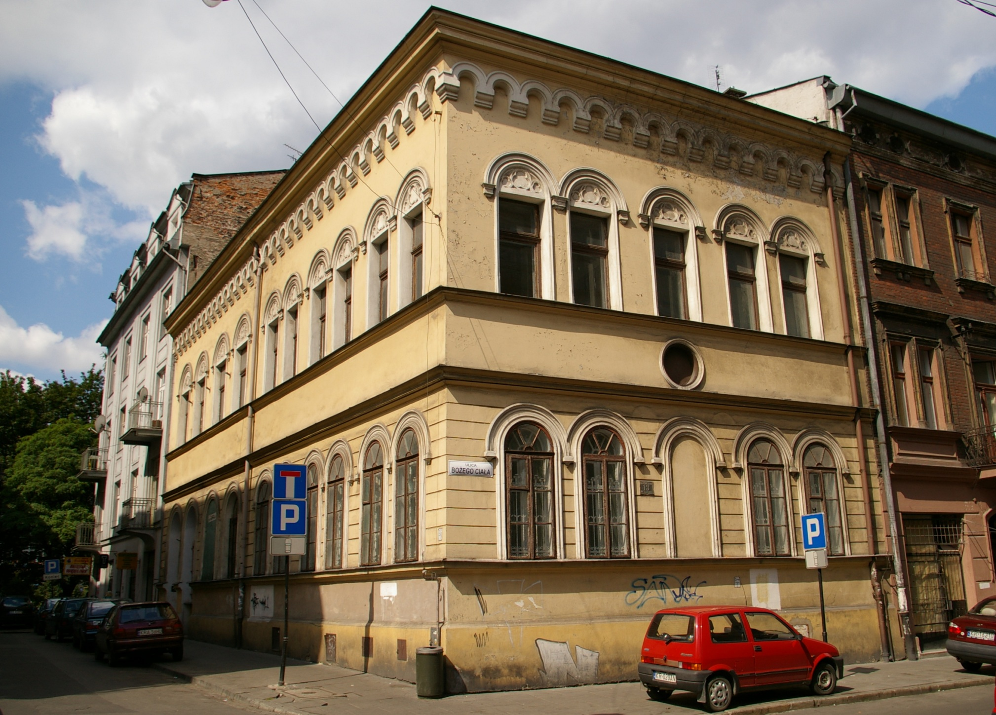 The former Chewra Thilim prayer house on Meiselsa Street in Kraków